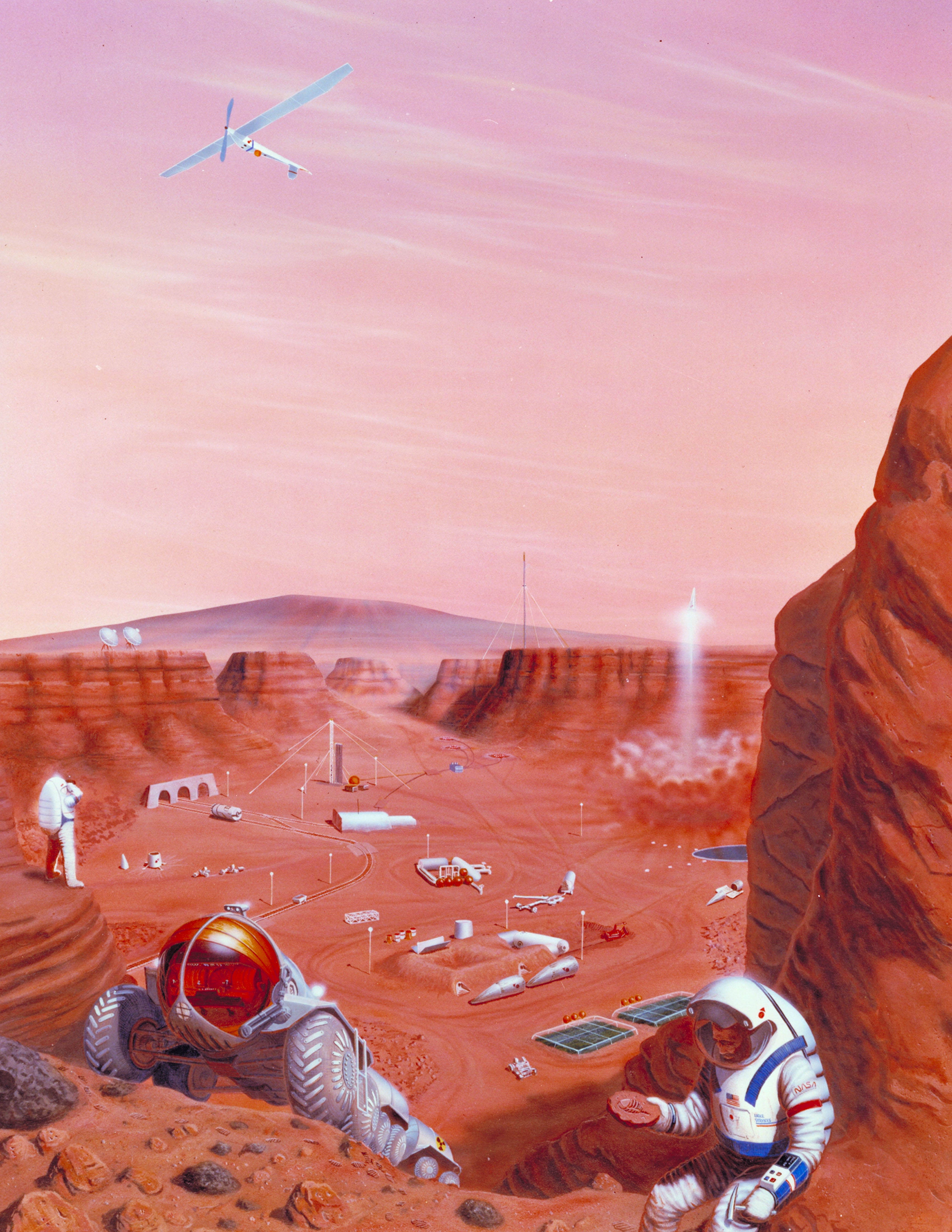 Artist's concept of possible exploration of the surface of Mars.